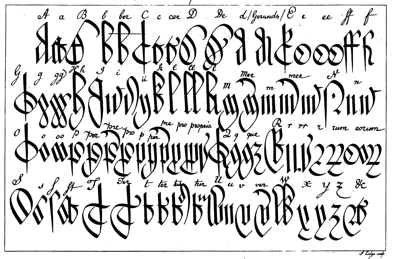 Court hand : alphabet and some syllable abbreviations